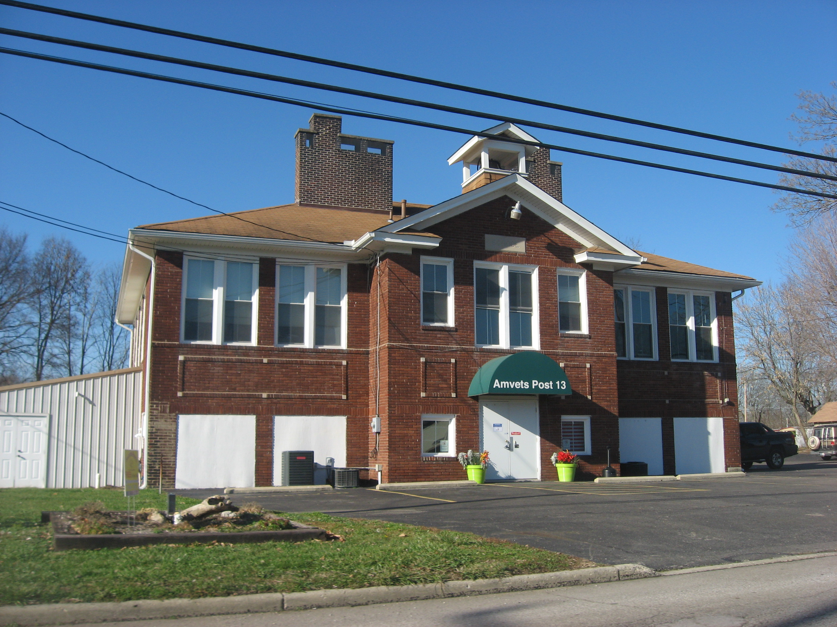 Front of the former West Harrison School (now an Amvets post), located at 507 S. State Street in West Harrison, Indiana, United States. Built in 1925, it is part of the locally-designated West Harrison Historic District. Note that the photo is taken from Ohio; State Street straddles the state line.